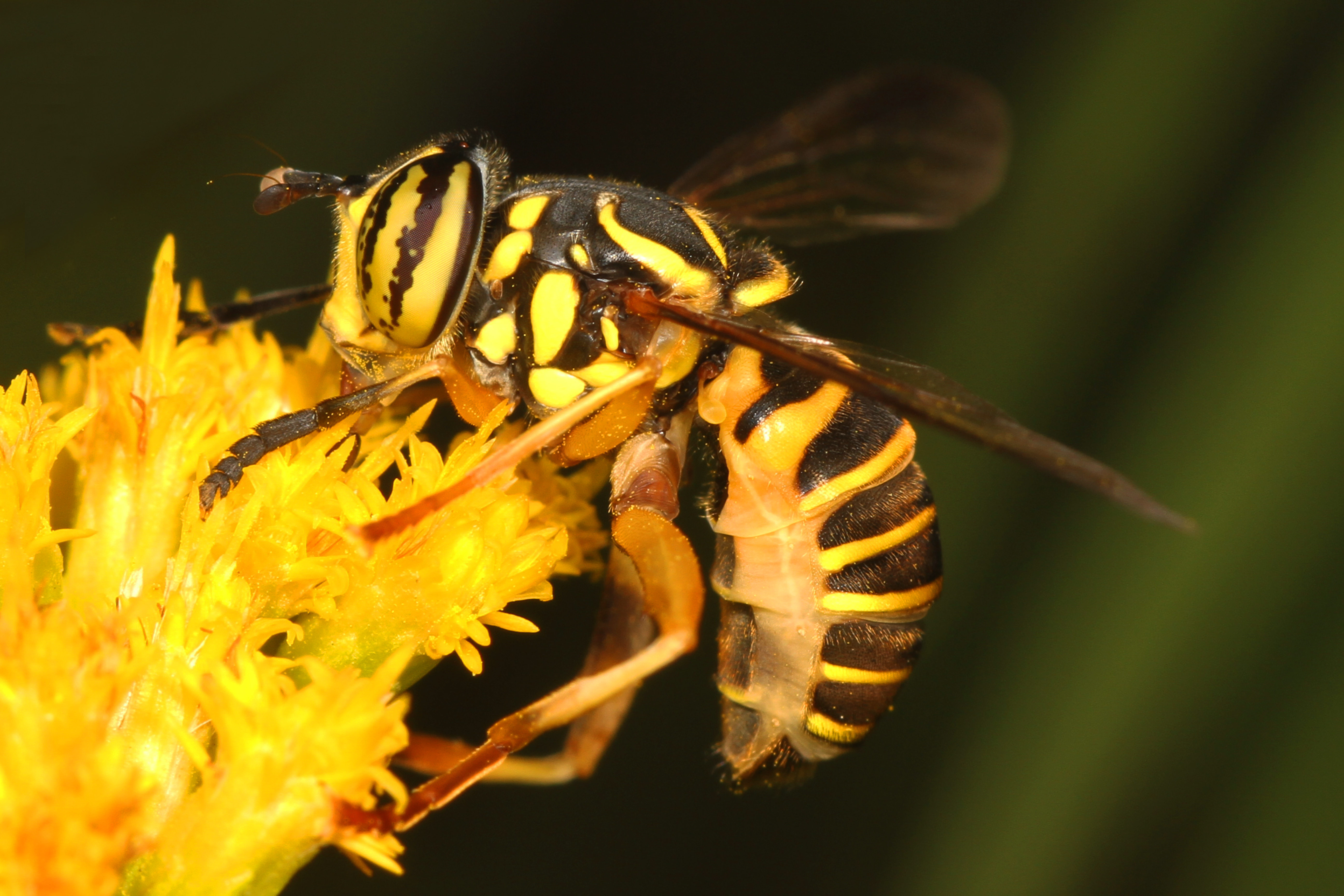 Syrphid - Spilomyia longicornis, Meadowood Farm SRMA, Mason Neck, Virginia.